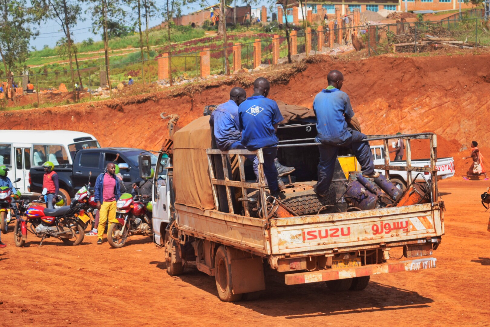 Road that is being under construction that will lead to the new bugesera international airport that is being built at the moment. Kinyarwanda: Umuhanda uri kubakwa uzanagera kucyibuga cy’ibdege cyiri kubakwa i bugesera. This is an image with the theme "Africa on the Move or Transport" from: Rwanda